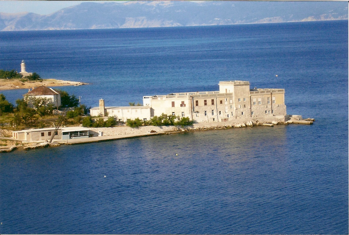 Fortica in Kraljevica, Croatia.